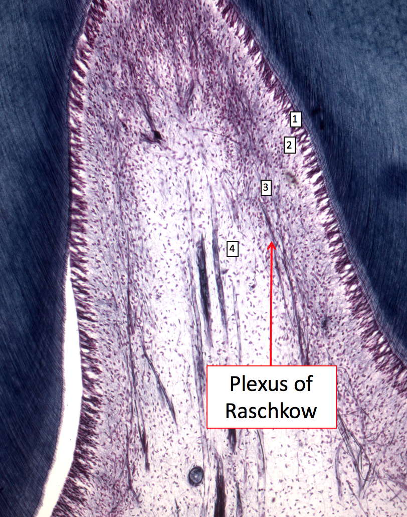 Legend: 1 - Odontoblast layer 2 - Cell-free zone of Weil 3 - Cell-rich zone 4 - Pulp core Image from: © School of Dentistry, University of Dundee